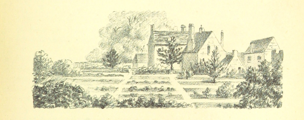 Image taken from: Title: "The Antiquities of Langharne and Pendine, Carmarthenshire, S. Wales, with some notice of their neighbourhoods, and illustrations" Author(s): Curtis, Mary, of Langharne [person] British Library shelfmark: "Digital Store 10369.ccc.2" Page: 159 (scanned page number - not necessarily the actual page number in the publication) Place of publication: London (England) Date of publication: 1880 Edition: Second edition Type of resource: Monograph Language(s): English Physical description: viii, 339 pages (8°) Explore this item in the British Library’s catalogue: 000840901 (physical copy) and 014839725 (digitised copy) (numbers are British Library identifiers) Other links related to this image: - View this image as a scanned publication on the British Library’s online viewer (you can download the image, selected pages or the whole book) - Order a higher quality scanned version of this image from the British Library Other links related to this publication: - View all the illustrations found in this publication - View all the illustrations in publications from the same year (1880) - Download the Optical Character Recognised (OCR) derived text for this publication as JavaScript Object Notation (JSON) - Explore and experiment with the British Library’s digital collections The British Library community is able to flourish online thanks to freely available resources such as this. You can help support our mission to continue making our collection accessible to everyone, for research, inspiration and enjoyment, by donating on the British Library supporter webpage here. Thank you for supporting the British Library.